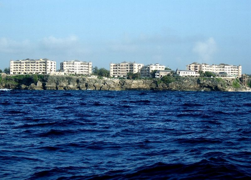 Old and new Crane buildings from Cobblers Reef